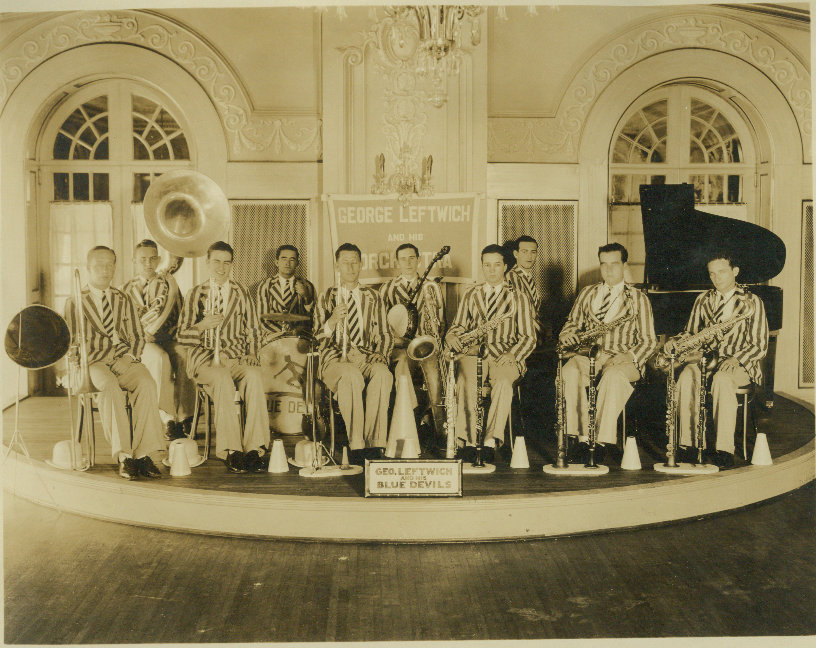 George "Jelly" Leftwich and His Blue Devils; Courtesy of Duke University Archives